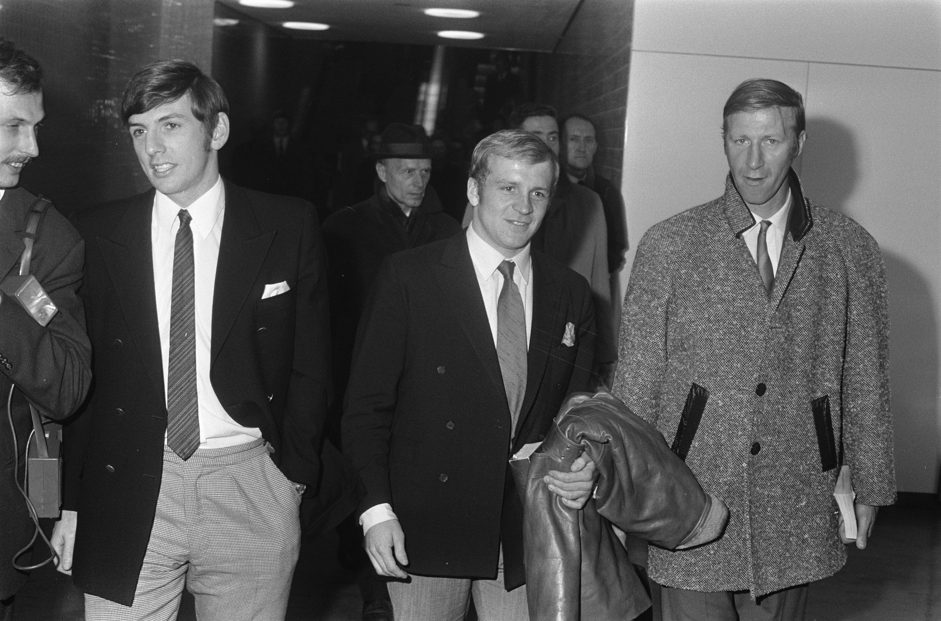 Engels voetbalelftal arriveert op Schiphol voor de wedstrijd tegen Nederlands elftal aanstaande woensdag. Nummer 2 Martin Peters , ?, Jackie Charlton